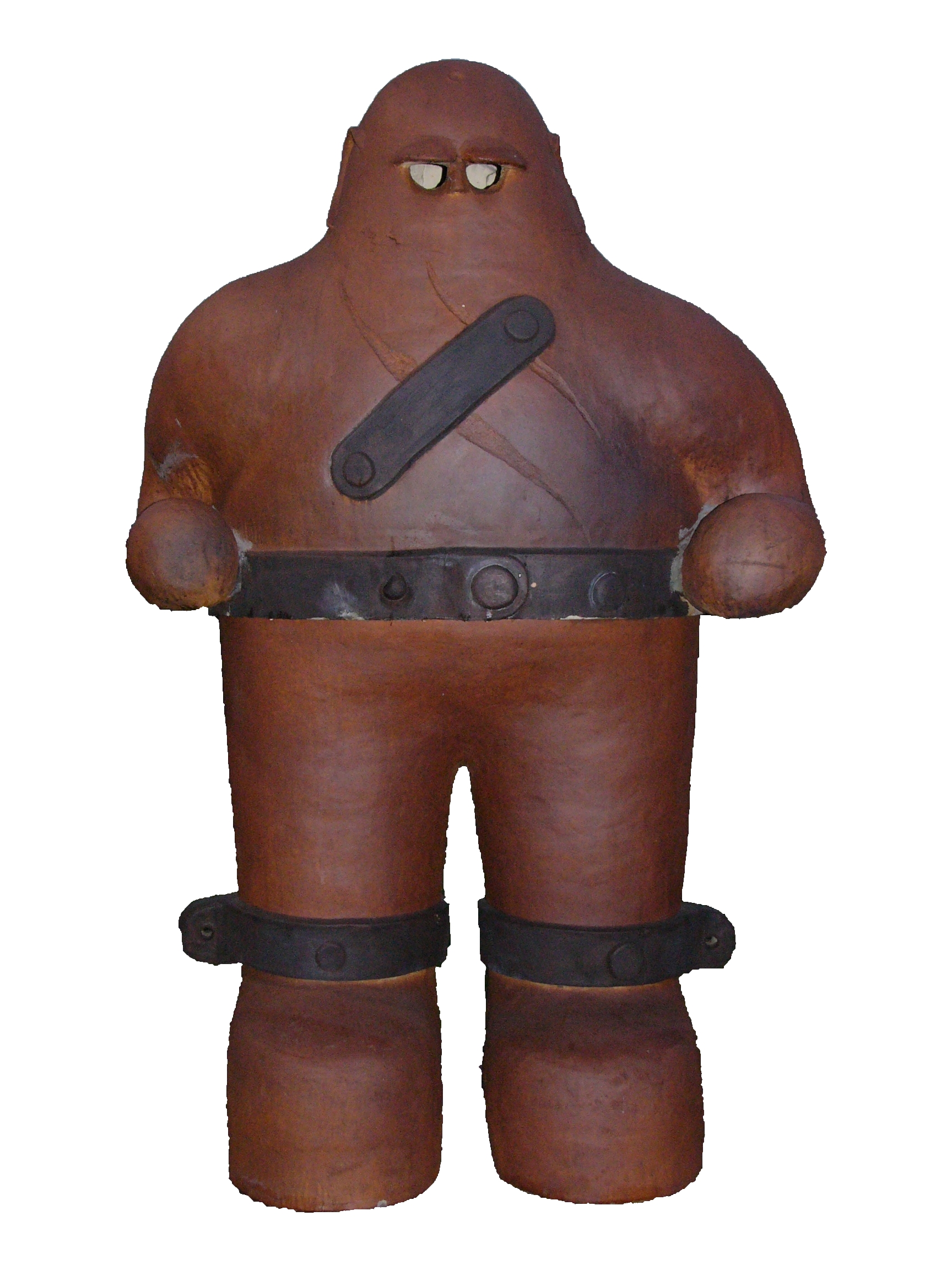 statue of clay golem depicting Prague Golem. (Photo taken in the Czech Republic).